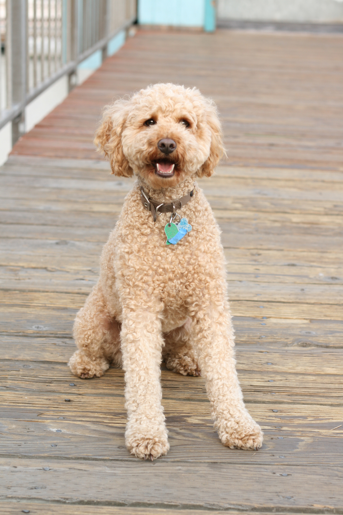 A three-year-old labradoodle.